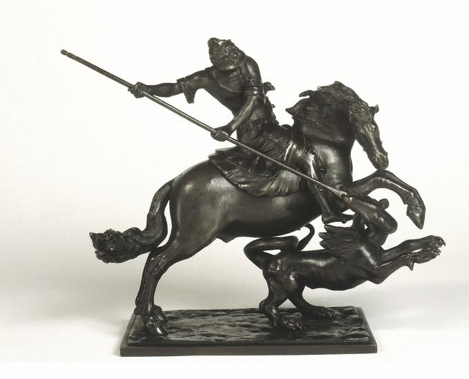 Statuette, about 1640, Francesco Fanelli V&A Museum no. A.5-1953 Techniques - Cast bronze Place - London, England Dimensions - Height 19.1 cm, Width 9.6 cm (base), Depth 24.8 cm, Depth 15.6 cm (base) Object Type - In the late 16th century, the Florentine sculptor Giovanni Bologna (1529-1608, active in Florence) and his followers were responsible for a significant output of sophisticated and high quality statuettes. These became dispersed throughout Europe and Charles I inherited a group from his elder brother, Henry, who died in 1612. They doubtless influenced both the King's taste and the imaginative production of Francesco Fanelli. Materials & Making - Bronze is an alloy of copper and tin, though its exact content can vary. Fanelli's 'bronzes' actually appear to be brass, which is a copper-zinc alloy, with a dark lacquer applied to the surface. Ownership & Use - Similar bronzes of equestrian subjects were produced by Fanelli for William Cavendish, the Earl (and later Duke) of Newcastle, governor of the future Charles II. A version of this bronze and a 'Cupid on Horseback' were listed in an inventory of the King's collection at Whitehall Palace in 1639. Both were sold from the royal collection in 1649, after Charles I's execution, but were traced by an agent of Charles II following the restoration of the monarchy. They are now at Windsor Castle.